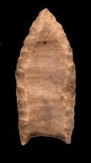 A Folsom Point — from the Paleo-indian Lithic stage Folsom tradition.